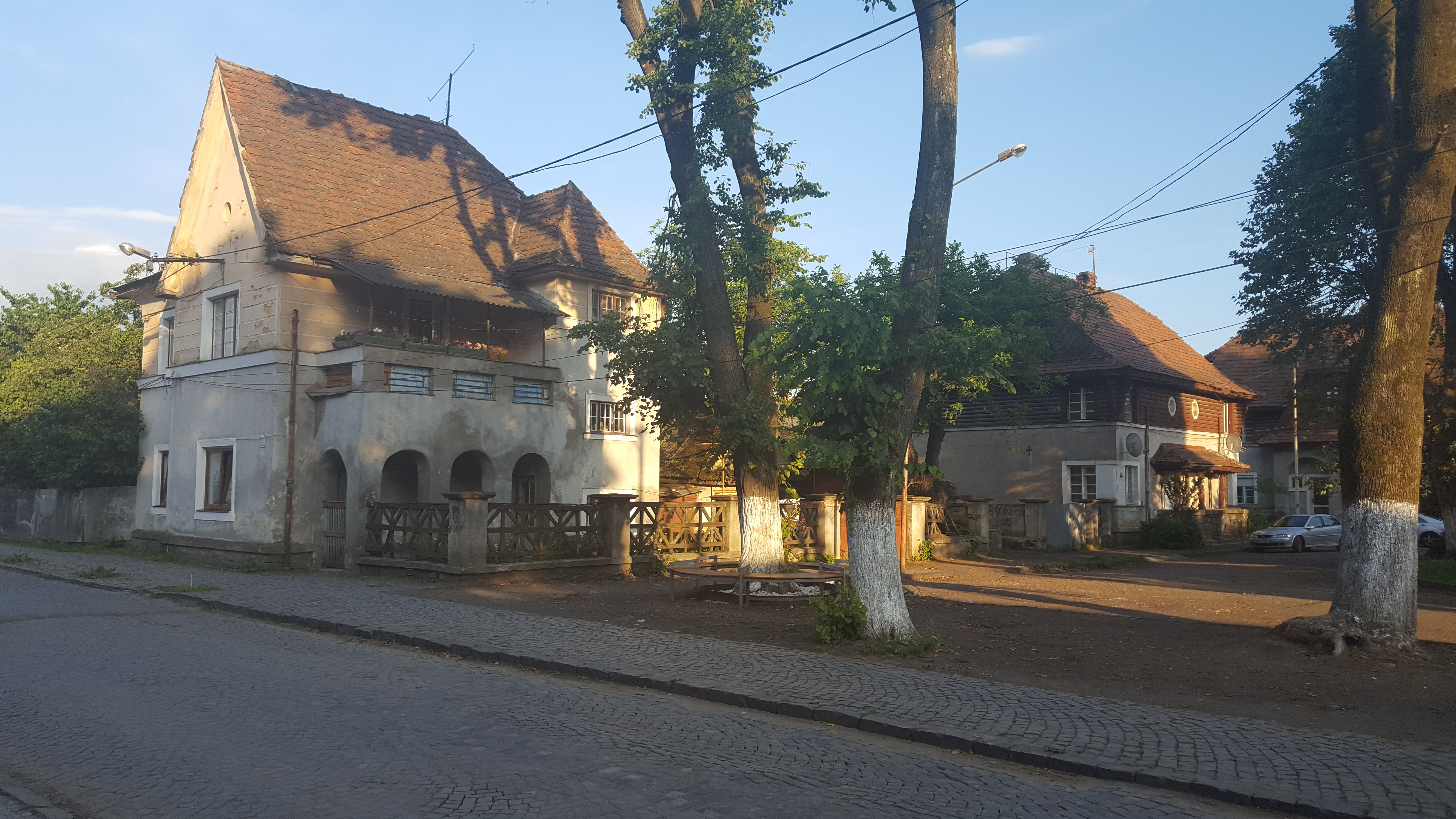 Houses in the "Czech quarter" of Khust, Ukraine.